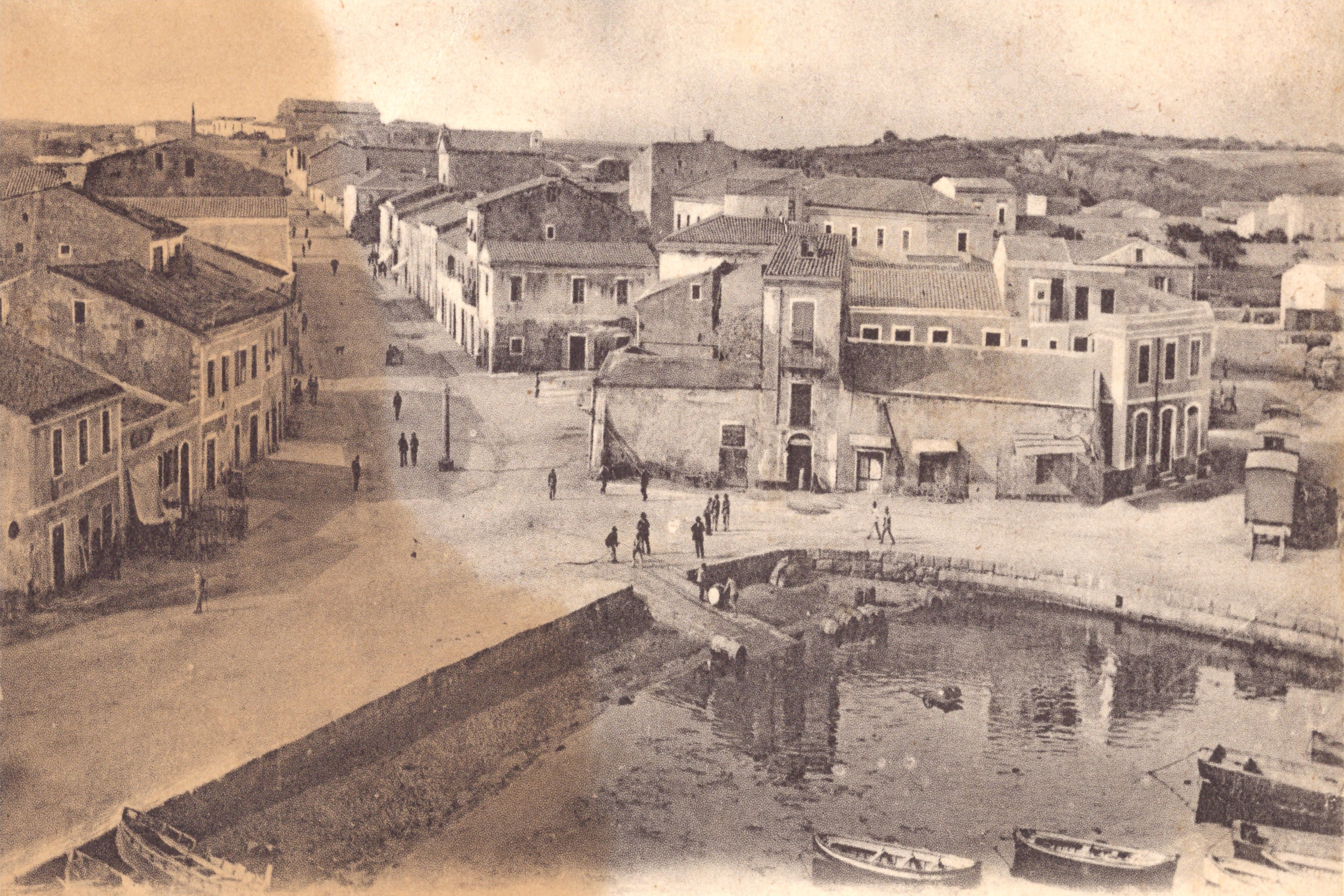 Porto Torres '800